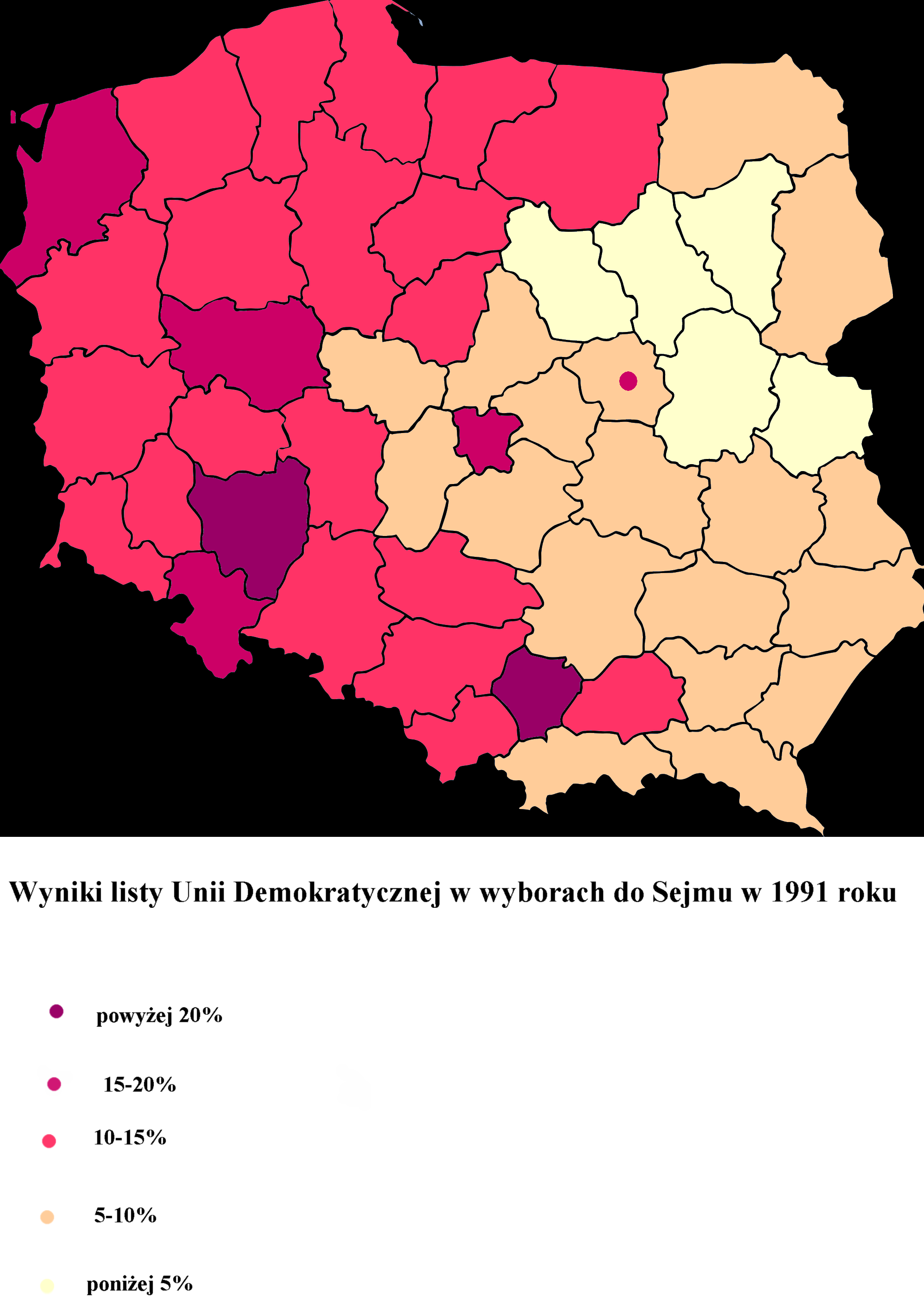 Democratic Union results in the Polish parliamentary election, 1991